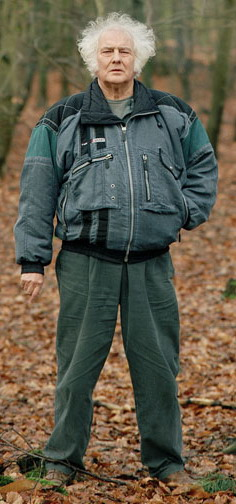 Jan Wolkers, Dutch writer, painter & sculptor (1925-2007) - cropped from Image:Jan_Wolkers.jpg